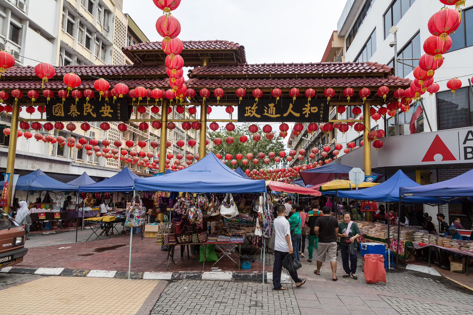 Kota Kinabalu, Sabah: Sunday market at Gaya street during Chinese New Year Celebration 2013